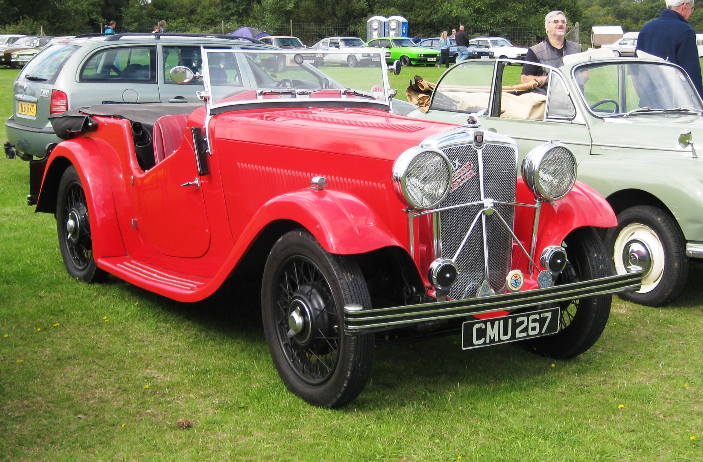 Special bodied Morris Ten-Six cabriolet